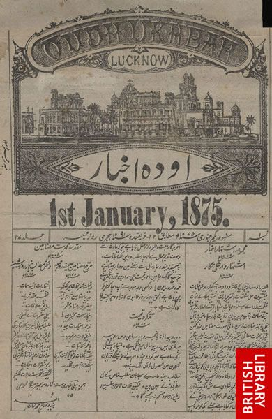 1 January 1875 issue of Urdu newspaper 'Avadh Akhbar' (also spelled as 'Awadh Akhbar' or 'Oudh Akhbar')